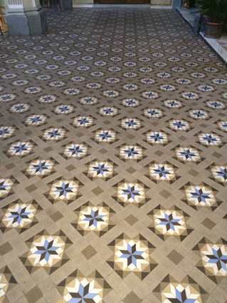 Mosaic floor in Meliana's church